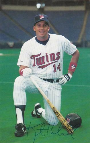 Professional baseball player Kent Hrbek